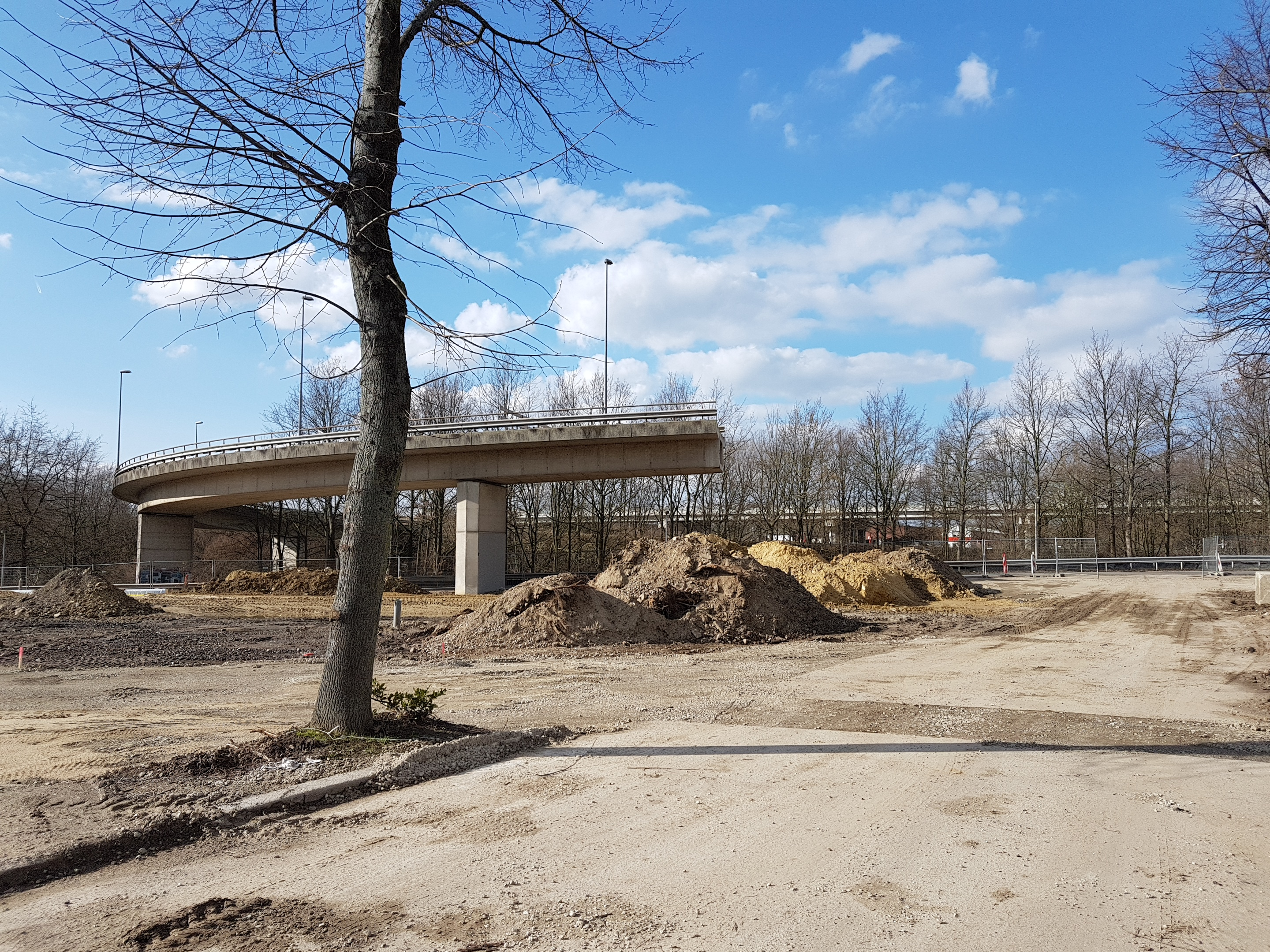 Remnant of the old Noorderbrug sliproad in Frontenpark in Maastricht, Netherlands. This section is to be kept as a modern folly.